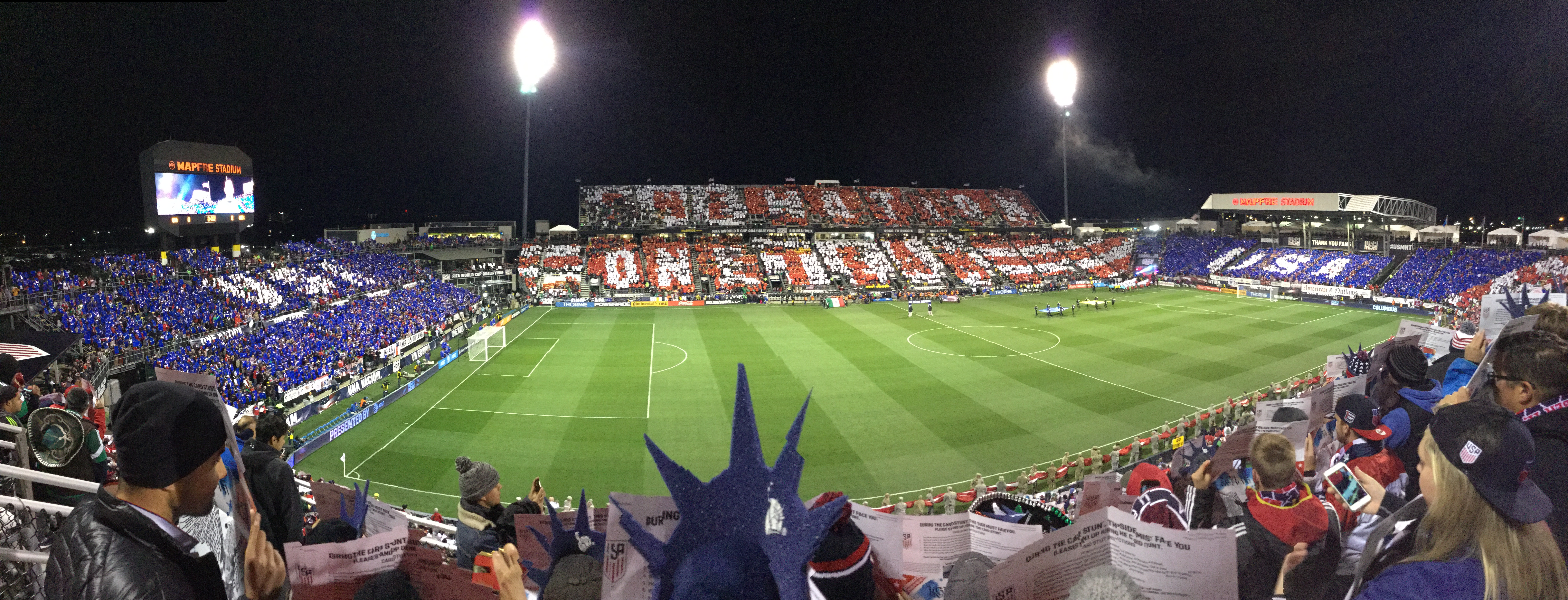 The crowd performs a card display prior to the 2018 World Cup qualifier between the United States MNT and Mexico on November 11, 2016 at MAPFRE Stadium in Columbus, Ohio.